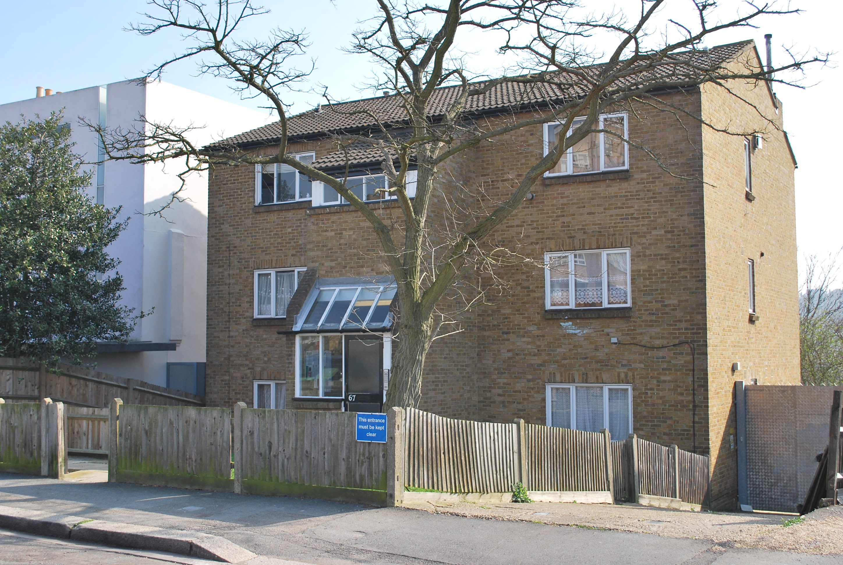 67 Overhill Road, East Dulwich, London, at this place Bon Scott died